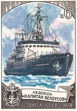 Soviet postage stamp of 6 kopecks. Ice-breaker "Captain Belousov (1978).